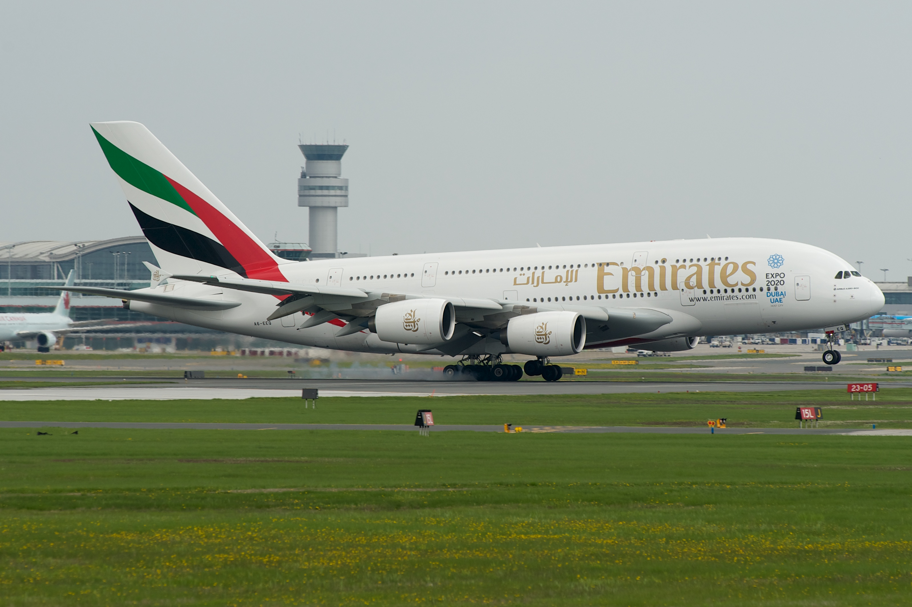 Touchdown on Runway 23, Toronto-Pearson.